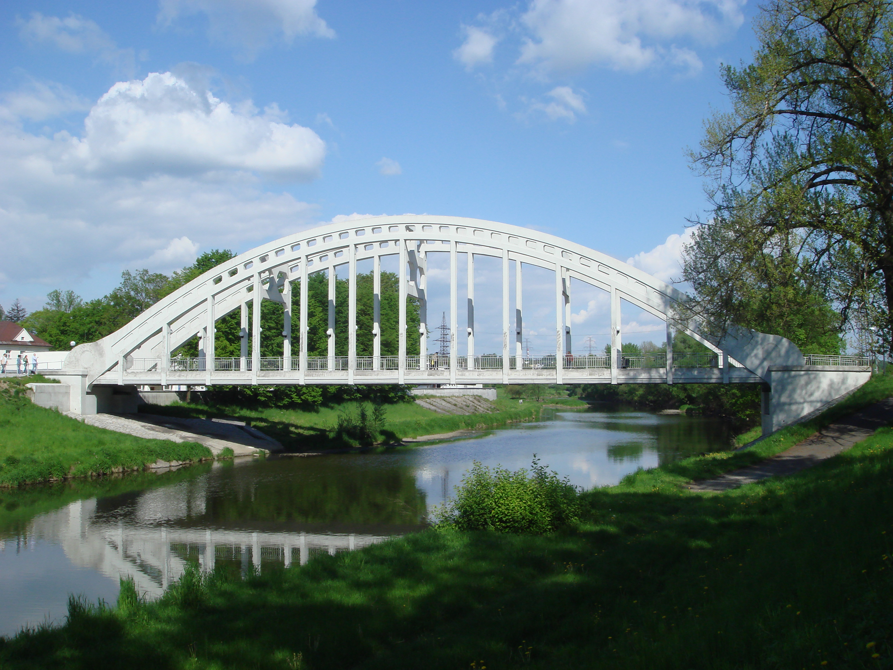 The Heroes of Sokolovo Bridge on the Olza/Olše River in Karviná-Darkov (Moravian-Silesian Region, Czech Republic).